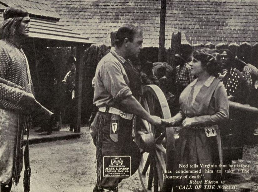 Still from the American film The Call of the North (1914) with Robert Edeson and Winifred Kingston, in the front piece of the Stewart Edward White novel. Caption: Ned tells Virginia that her father has condemned him to take "The Journey of Death".